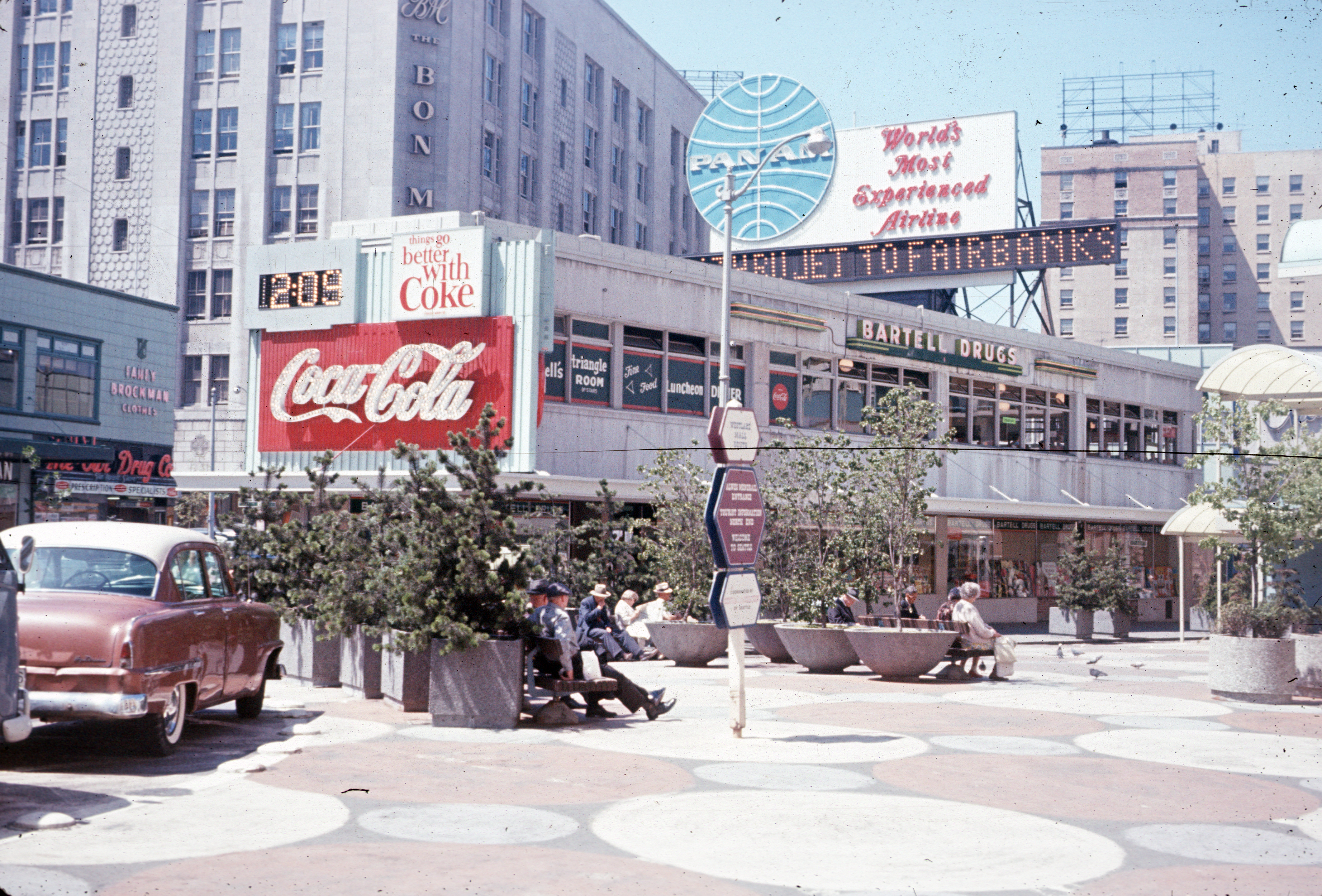 Westlake pedestrian mall, Seattle, Washington, USA, 1965. Precursor to the present-day Westlake Park. The curved awnings at right are the old monorail terminal. The Bartell's drug store in the middle ground is now gone, part of the park. The Bon Marché flagship store in the background is now a Macy's. In background at right is the Mayflower Park Hotel, still standing. Pan Am is, of course, also long gone. Item 76155, Forward Thrust Photographs (Record Series 5804-04), Seattle Municipal Archives.